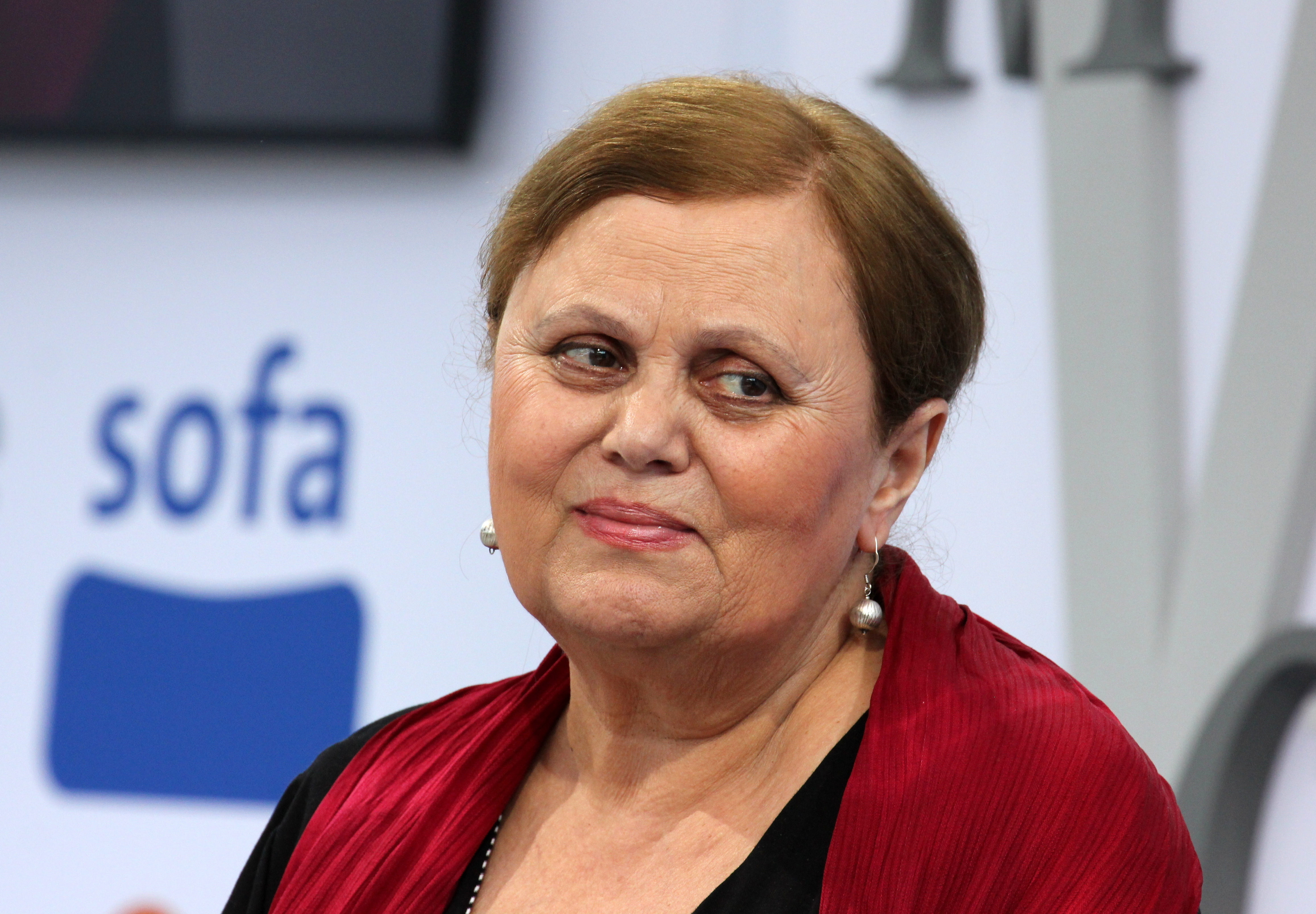 Naira Gelaschwili Leipzig Book Fair 2017